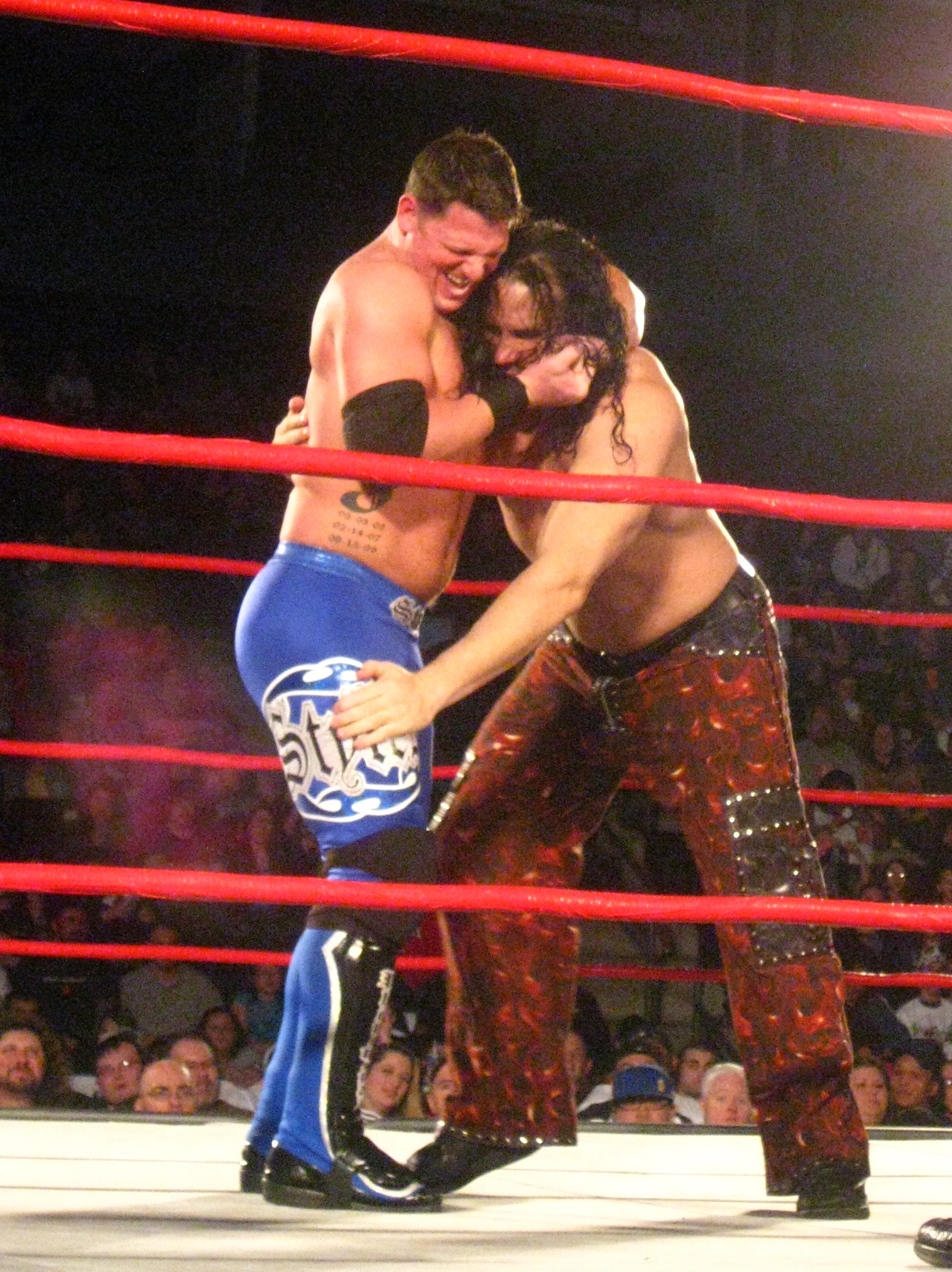 A TNA Live! Even at the ShoWare Center in Kent, WA. No PRO cameras were allowed so I had to put my Canon PowerShot SD1100 IS to work!